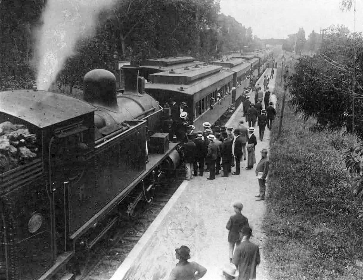 A train stopped at Recoleta station during a workers' strike, with its passengers are on the platform. Recoleta was part of the Buenos Aires Northern Railway line.